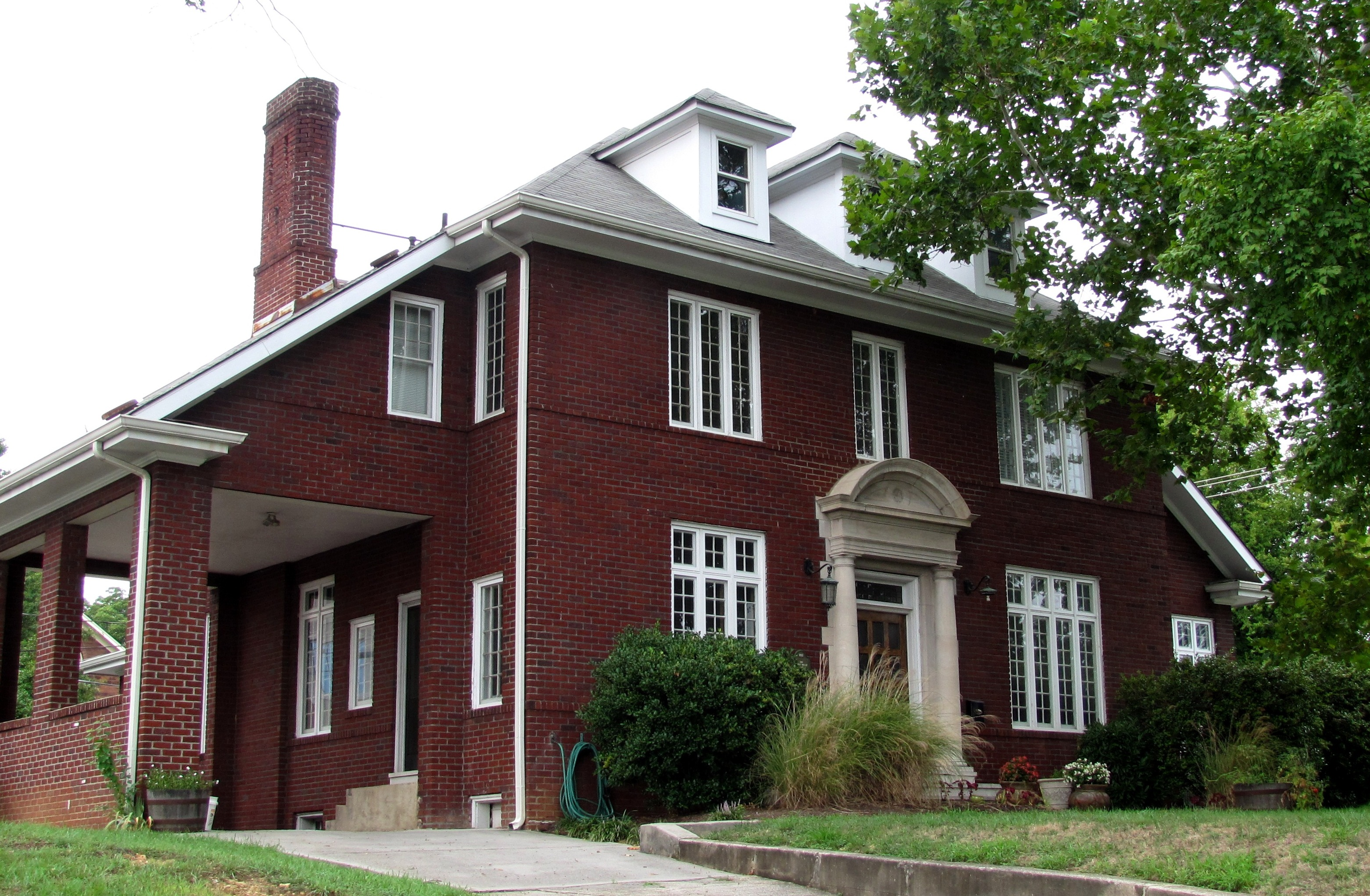 House at 1803 Clinch Avenue in the Fort Sanders neighborhood of Knoxville, Tennessee, USA. Built circa 1912, this house is now a contributing property within the NRHP-listed Fort Sanders Historic District. The house is called the "Roddy House" after its former resident, Roddy Coca-Cola Bottling Company founder J. Patrick Roddy, Sr.